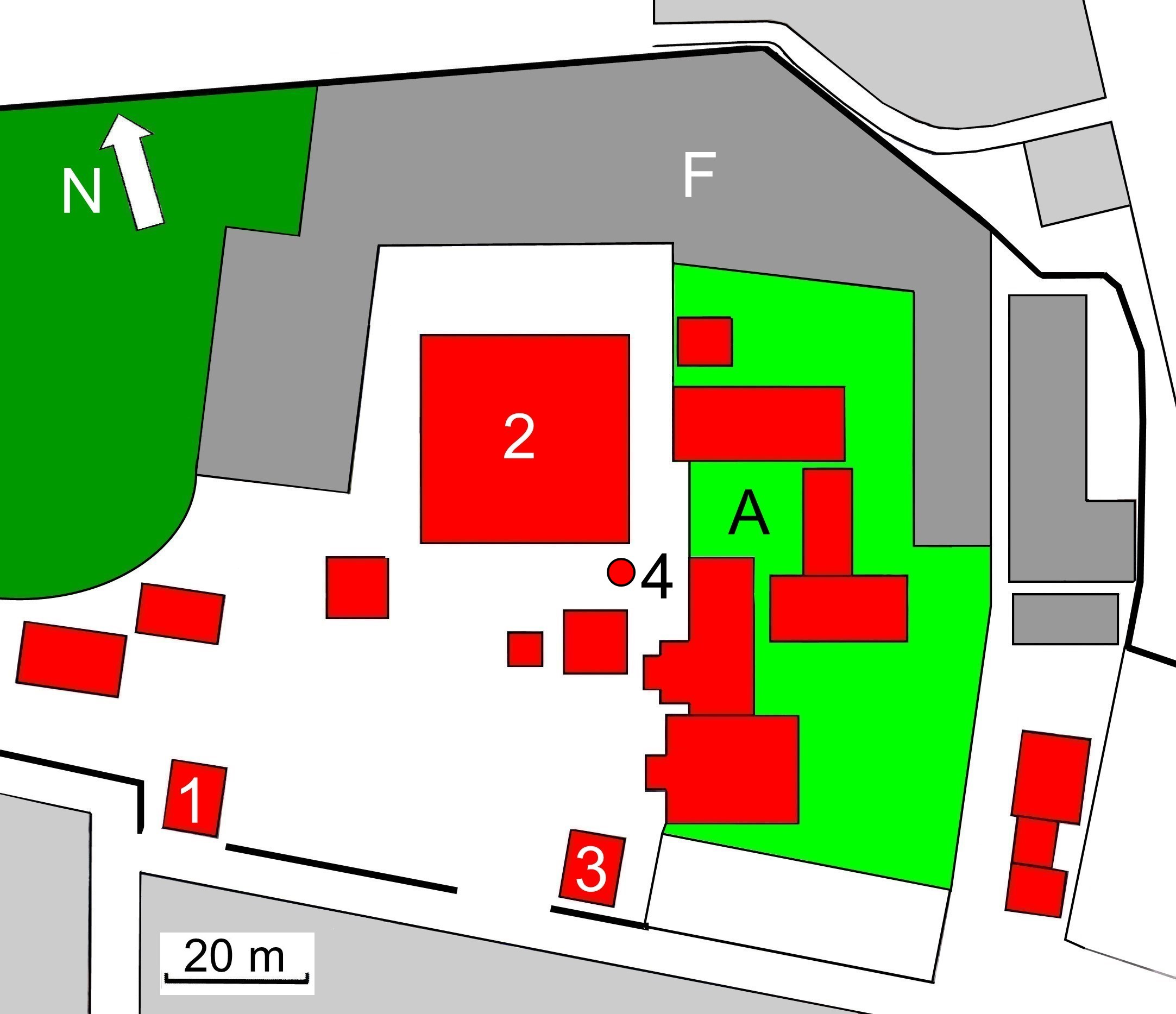 Layout of Jion-ji (Saitama) temple